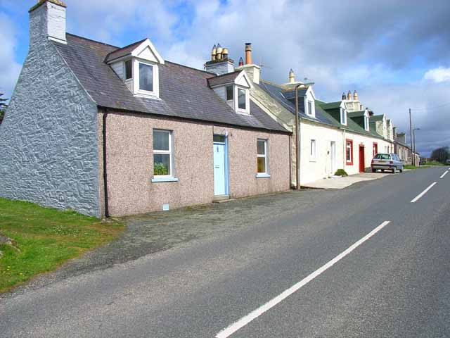 Cottages near March Farm, Whauphill. On the B7085 Portwilliam to Wigtown road. Typical of the small cottages found throughout southern Scotland.